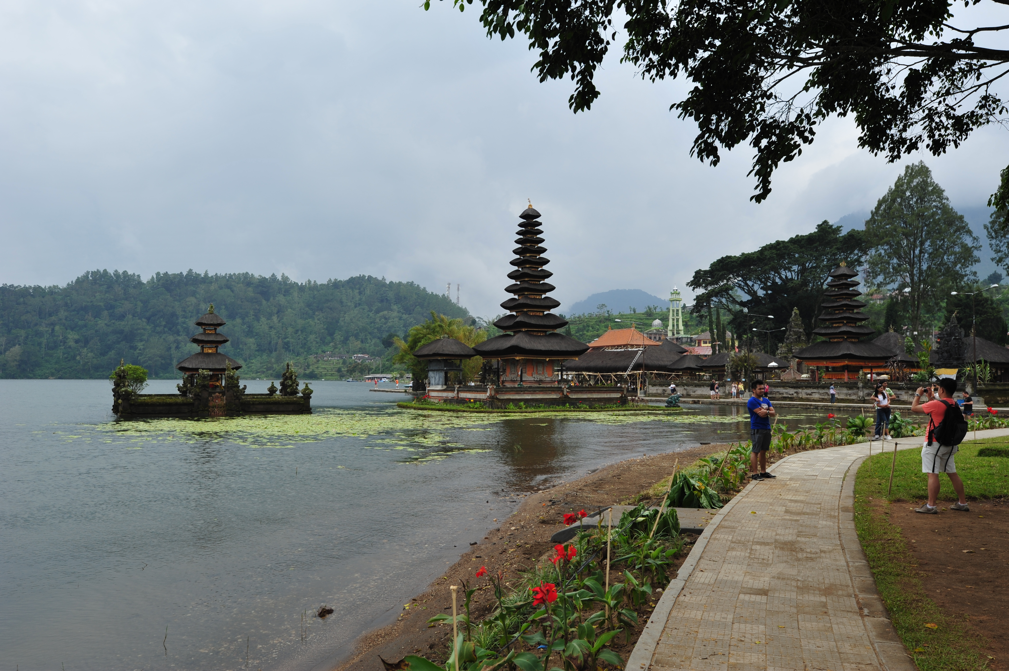 Pura Ulun Danu Bratan Bali 2011